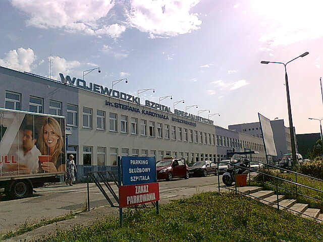 Poland, Lublin, Voivodeships Specialists Hospital, August 2012